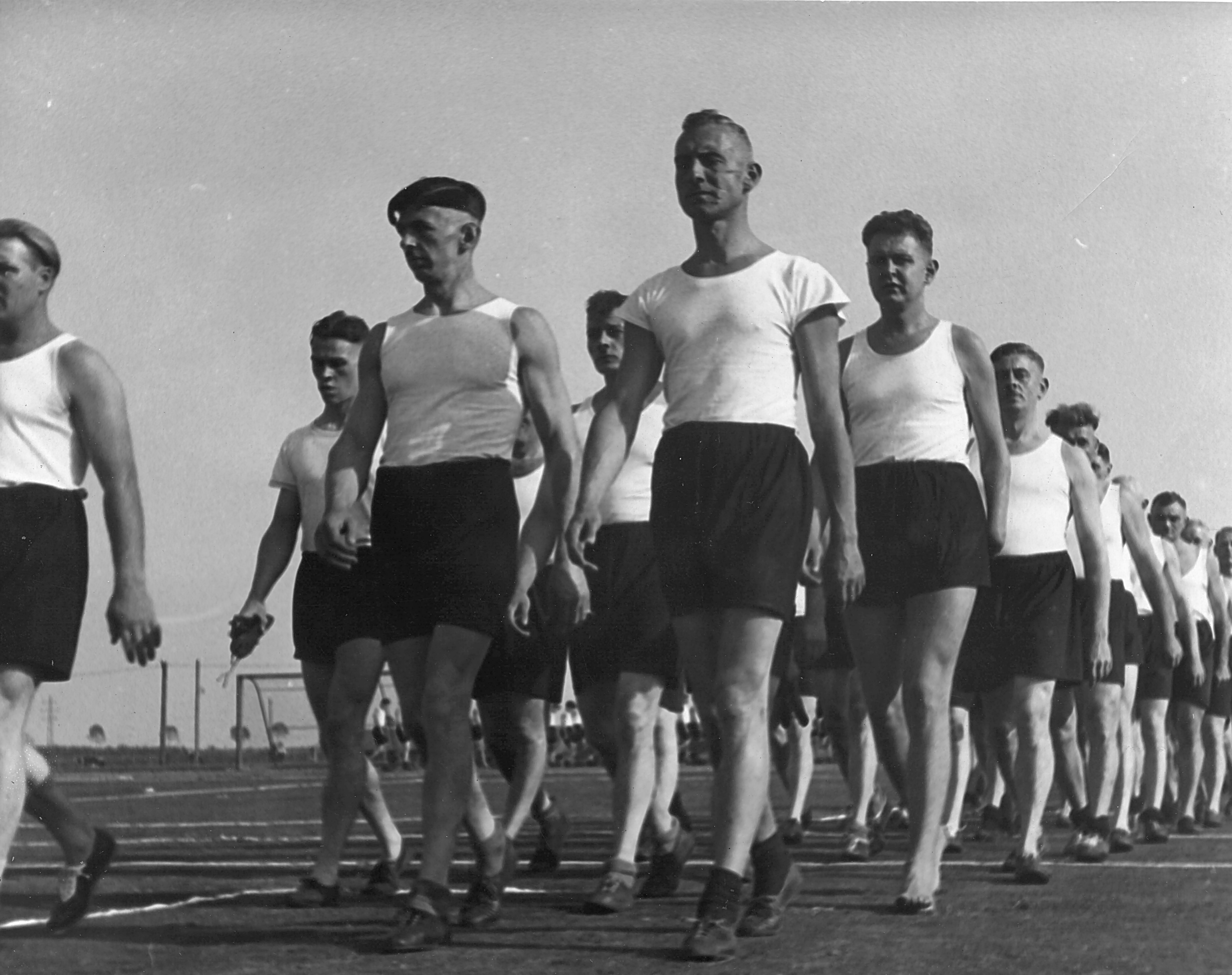 Sport 1936 - heute Chemiepark Knapsack, Huerth, Germany